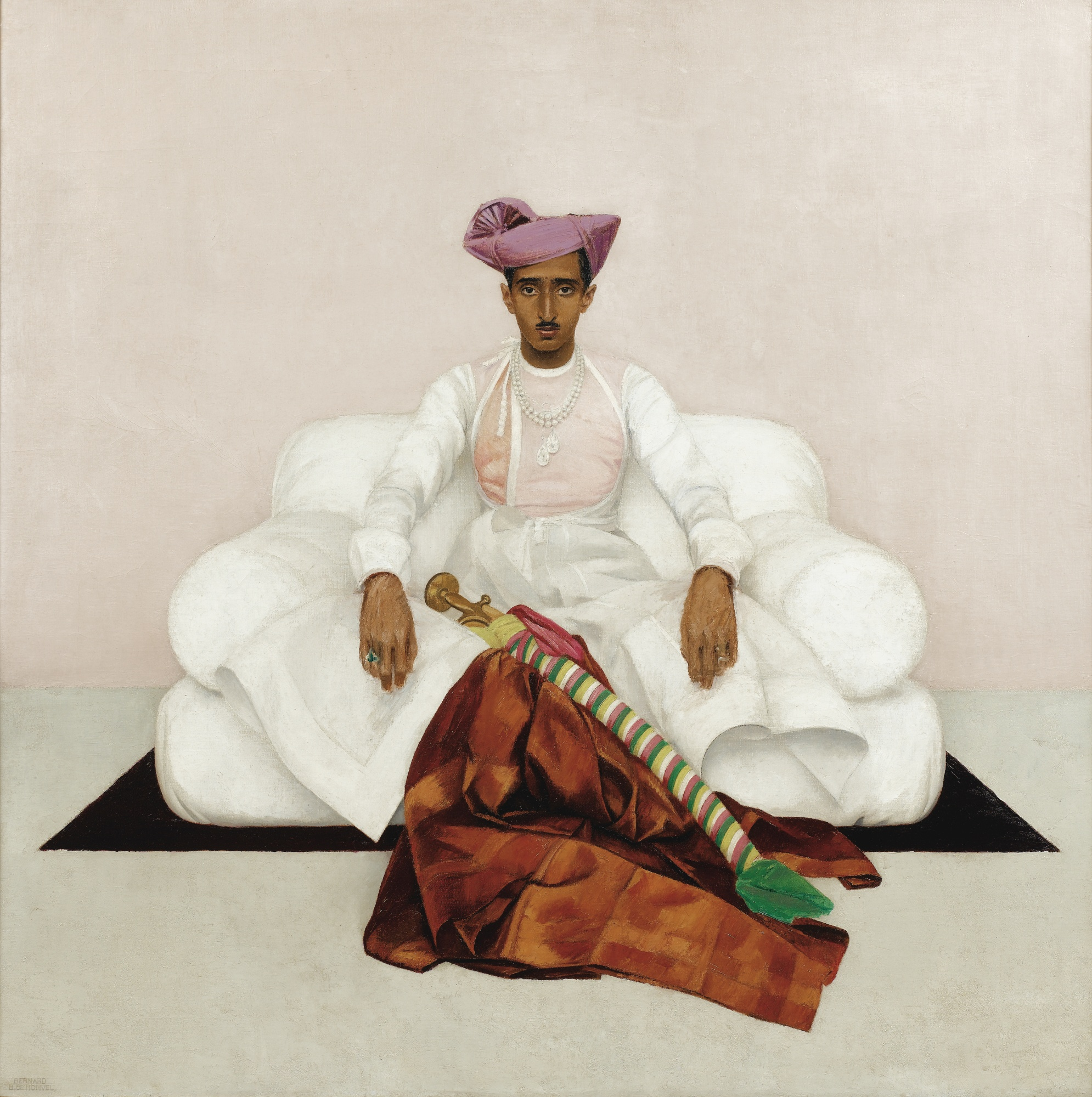 H.H. The Maharajah of Indore. The painting depicts Yeshwant Rao Holkar II sitting on Holkar’s white throne in traditional Maratha attire with a garnet-hued turban on his head, two 47-carat diamonds ("Indore Pears") around his neck, along with a luxurious fabric and a striped sabre scabbard at his feet.